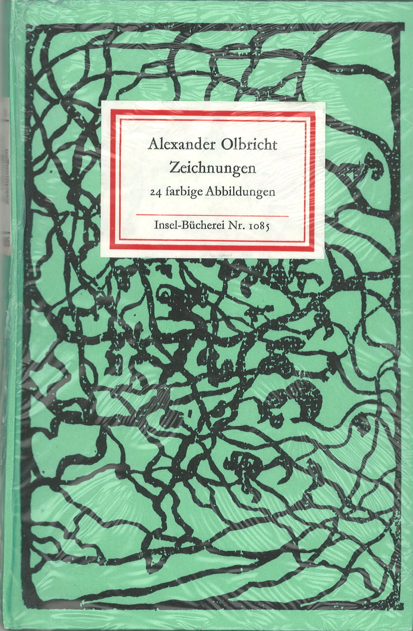 Frontcover of IB 1089, Olbricht: Zeichnungen (Drawings), shrink-wrapped for book export